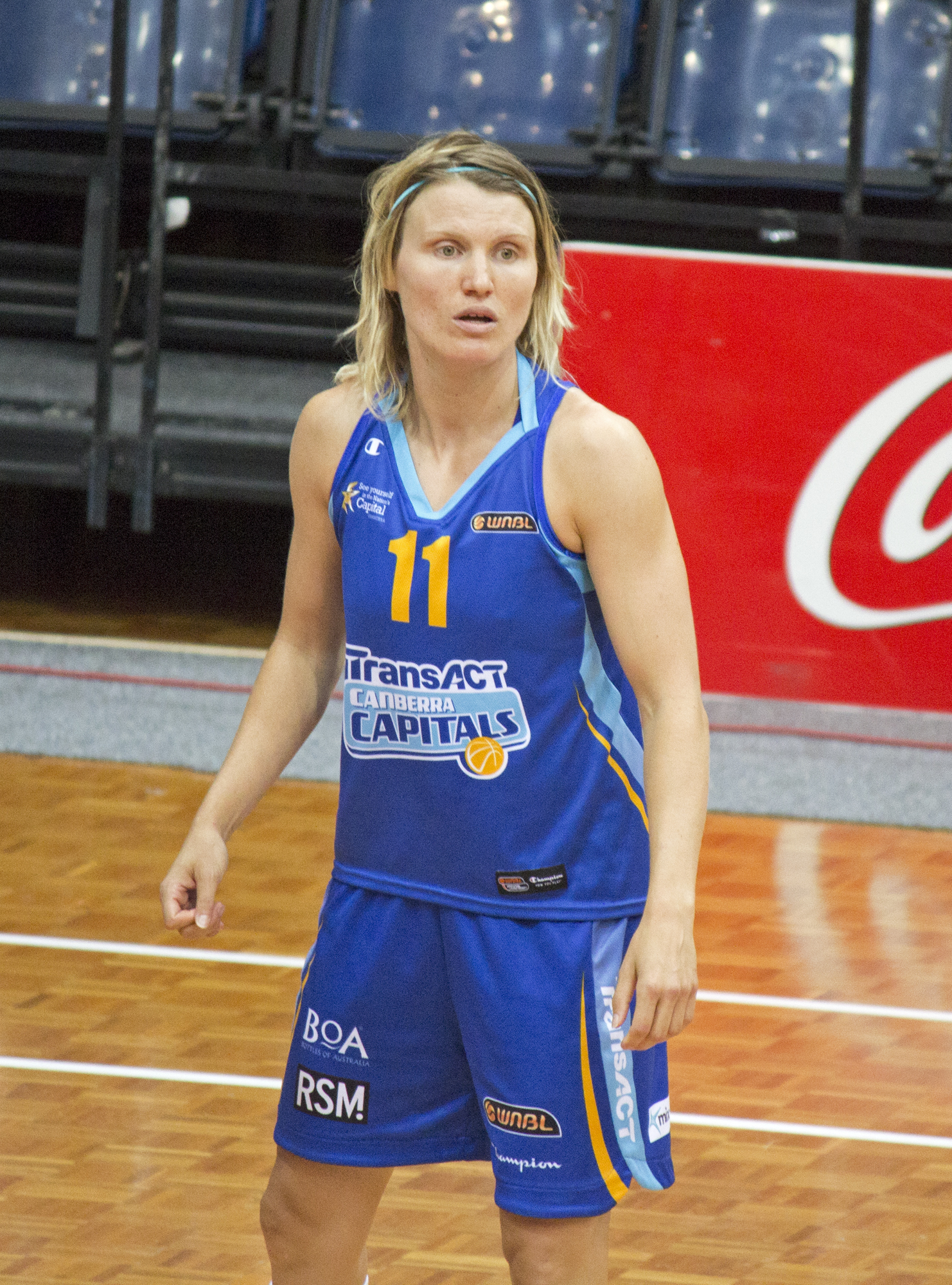 Jessica Bibby } at the Canberra Capitals vs Logan Thunder held at AIS Arena at the Australian Institute of Sport.